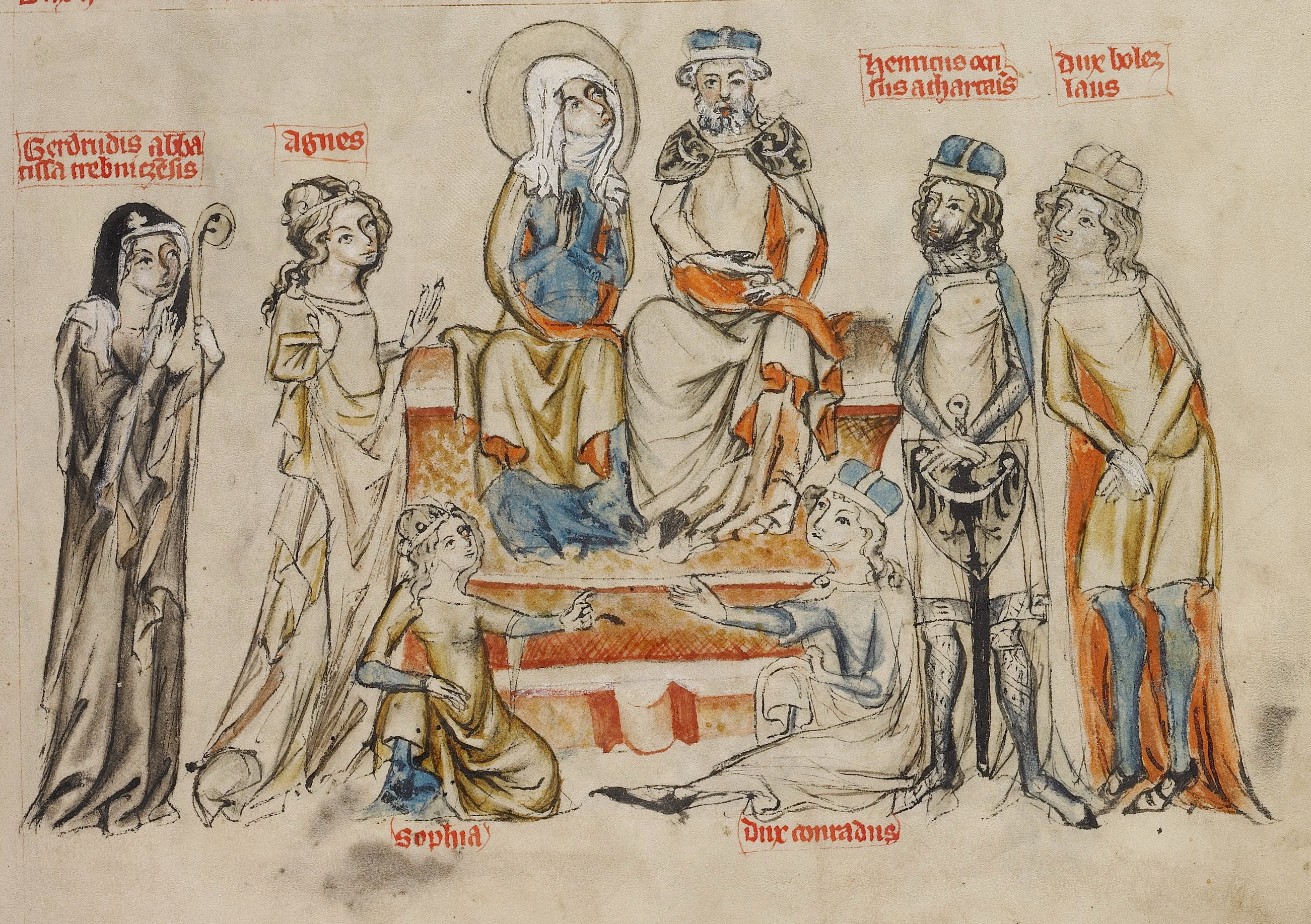 Saint Hedwig's family from Legend of Saint Hedwig (in the center sit: Hedwig of Andechs and Henry I the Bearded, from left stand: Gertrude, Agnes, Henry II the Pious, Boleslaus, at the bottom sit: Sophia i Conrad the Curly